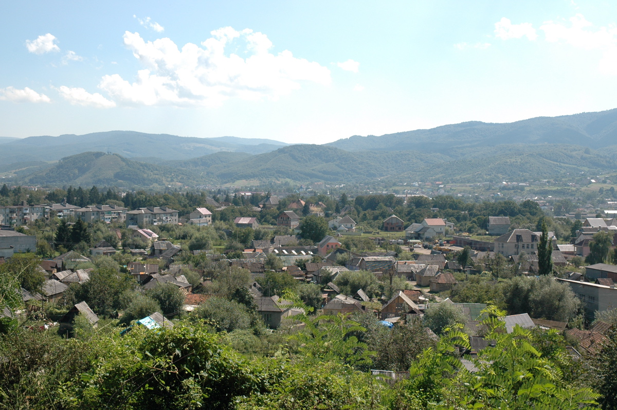 Panoramic view of Svaliava